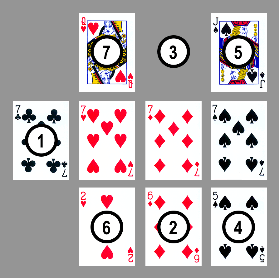 Illustration on how card game Ristiseiska is played. Demonstrated game situation. 1. Player who has seven of the clubs in their hand, starts the game by placing the card on board. 2. Next players may either place another seven if they have it (e.g. seven of hearts) or card number 6 beneath the 7, if corresponding 7 has been placed on table. 3. Only after 6 has been placed under 7, corresponding 8 may be placed on top of 7. Before 8 has been placed on board, 5 may not be played on top of 6. 4. After both 6 and 8 have been placed on board, players may start placing larger and smaller cards from their hands (e.g. 5 or 9). 5. Cards are placed in number order first 8, then 9, then 10, continuing with jack and queen. 6. After 2 is placed on top of lower pile, it will be turned over. Player may continue and place another card if they wish. 7. King will turn the upper pile over. The player may choose to continue playing if they want, and place another card on table. In this simulated game situation, the player could first place 2 of hearts on top 3 of hearts, then continue by placing king of hearts and continue their turn and place third card, say 4 of spades. Therefore player would have got rid of three cards from his hand in a single turn.